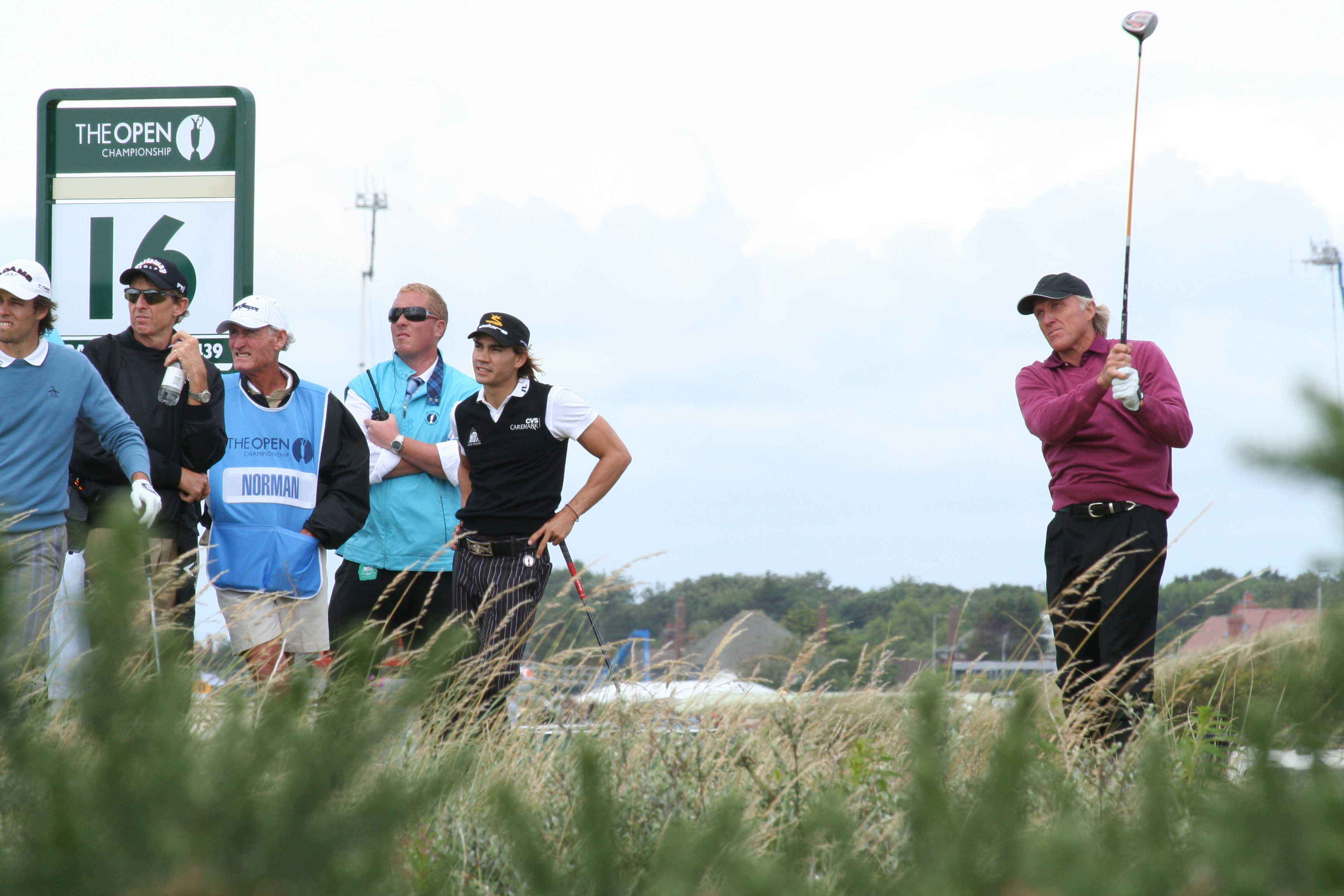 Greg Norman at the 2008 Open Championships, Royal Birkdale Golf Club. On Norman's right (viewer's left) is Camillo Villegas.